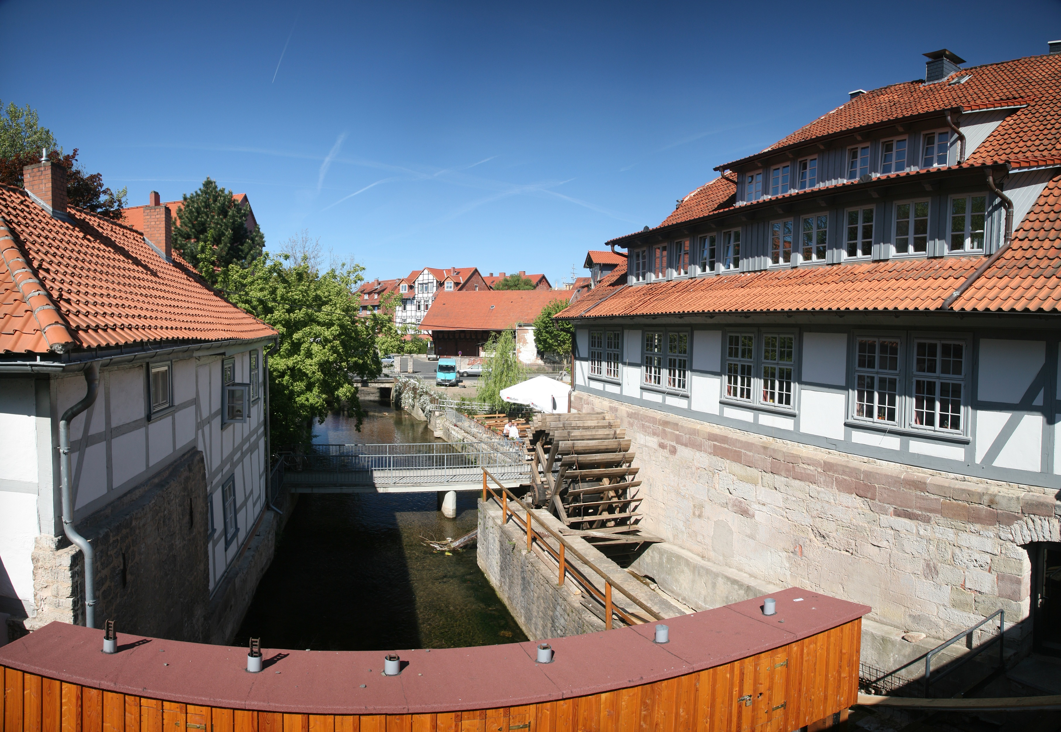 Lohmuehle and Odilienmühle, historic water mills, Göttingen, Germany